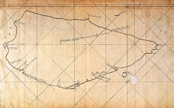 The first "correct" map of Taiwan in the world, which was drawn by Dutch sailor in 1625 when Taiwan was under the Dutch colonial rule. Before the appearance of this map, Taiwan was drawn as three separate islands in all maps.